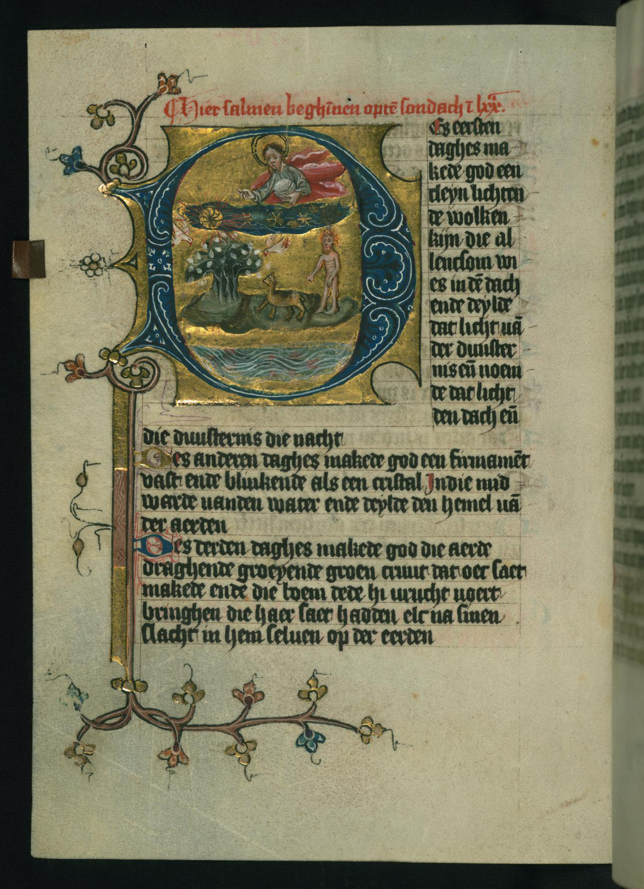 This folio from Walters manuscript W.171 depicts the six days of creation.